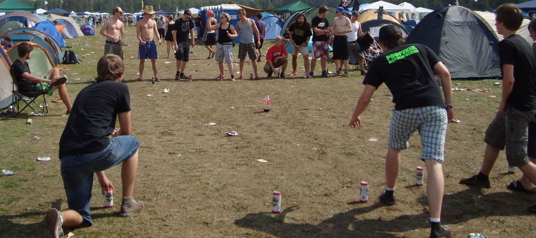 Picture of a game of Flunkyball at the Area4-Festival